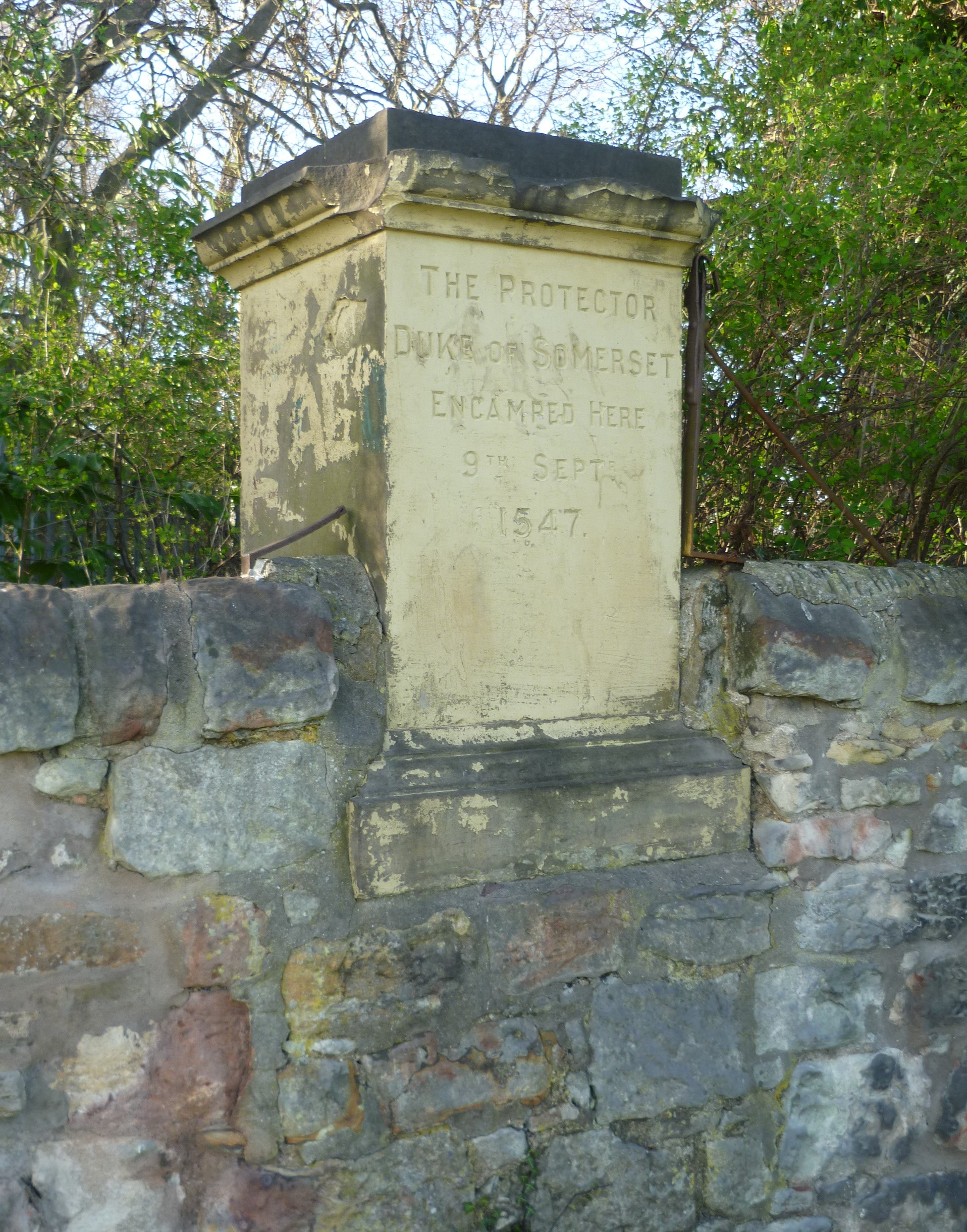 This stone marks the site of the English army encampment on the eve of the battle of Pinkie in 1547. Edward Seymour, bearing the title Protector Somerset, led an English army with naval support into Scotland in a further attempt to force the Regent Arran and the Scottish nobility to agree to the marriage of the four-year old Mary, Queen of Scots, to the nine-year old King Edward VI of England. The battle turned into a disastrous defeat for the Scots, but the English did not press home the victory. In the following summer the Scottish Parliament agreed that the infant Queen should sail for France to marry the French Dauphin instead.